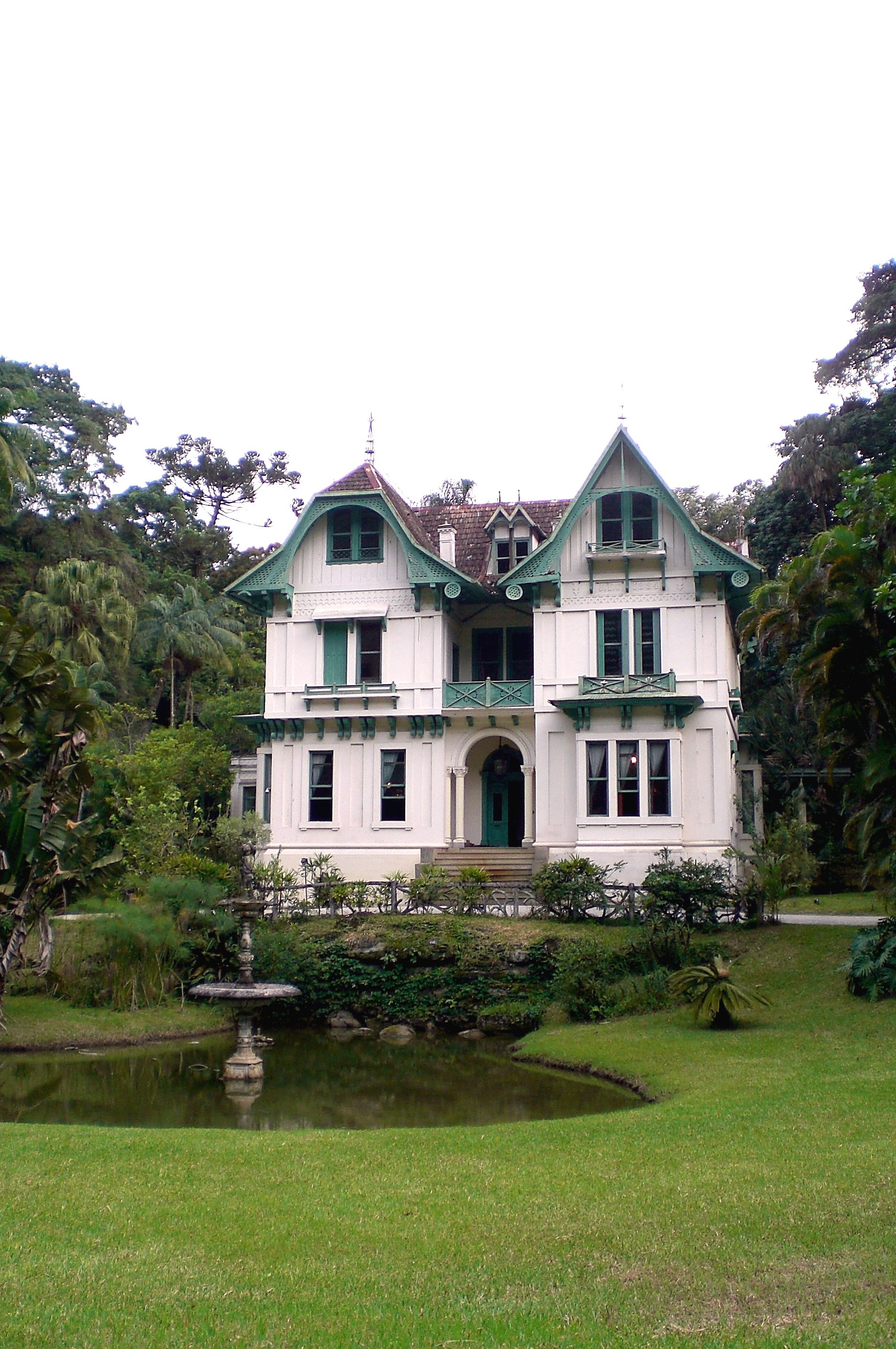 Tavares Guerra House in Petrópolis, Brazil Uploaded with the Flock Browser